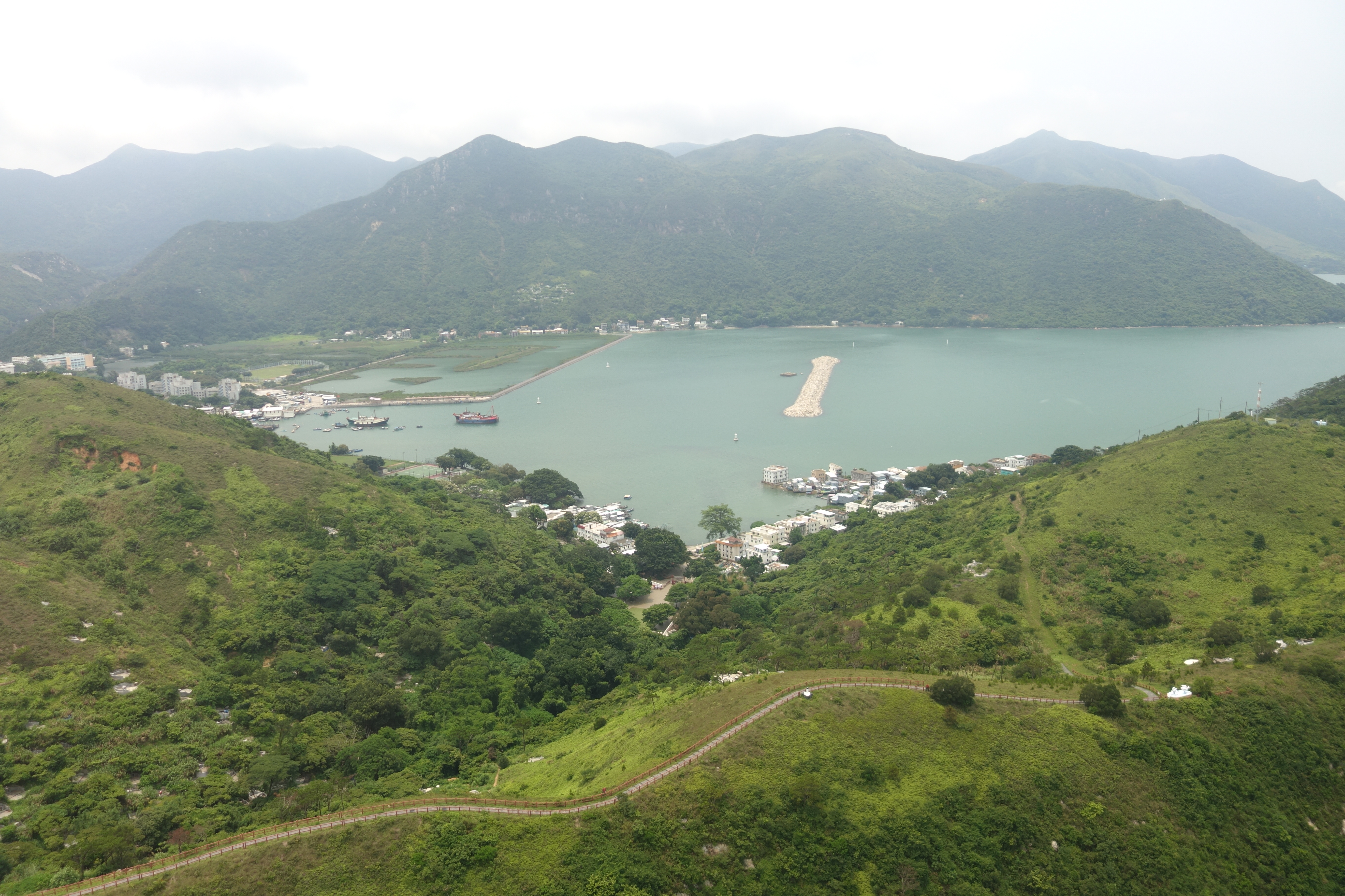 An aerial view of Tai O looking south with disused salt pans slightly left of center and Tsim Fung Shan 339 m in the background.